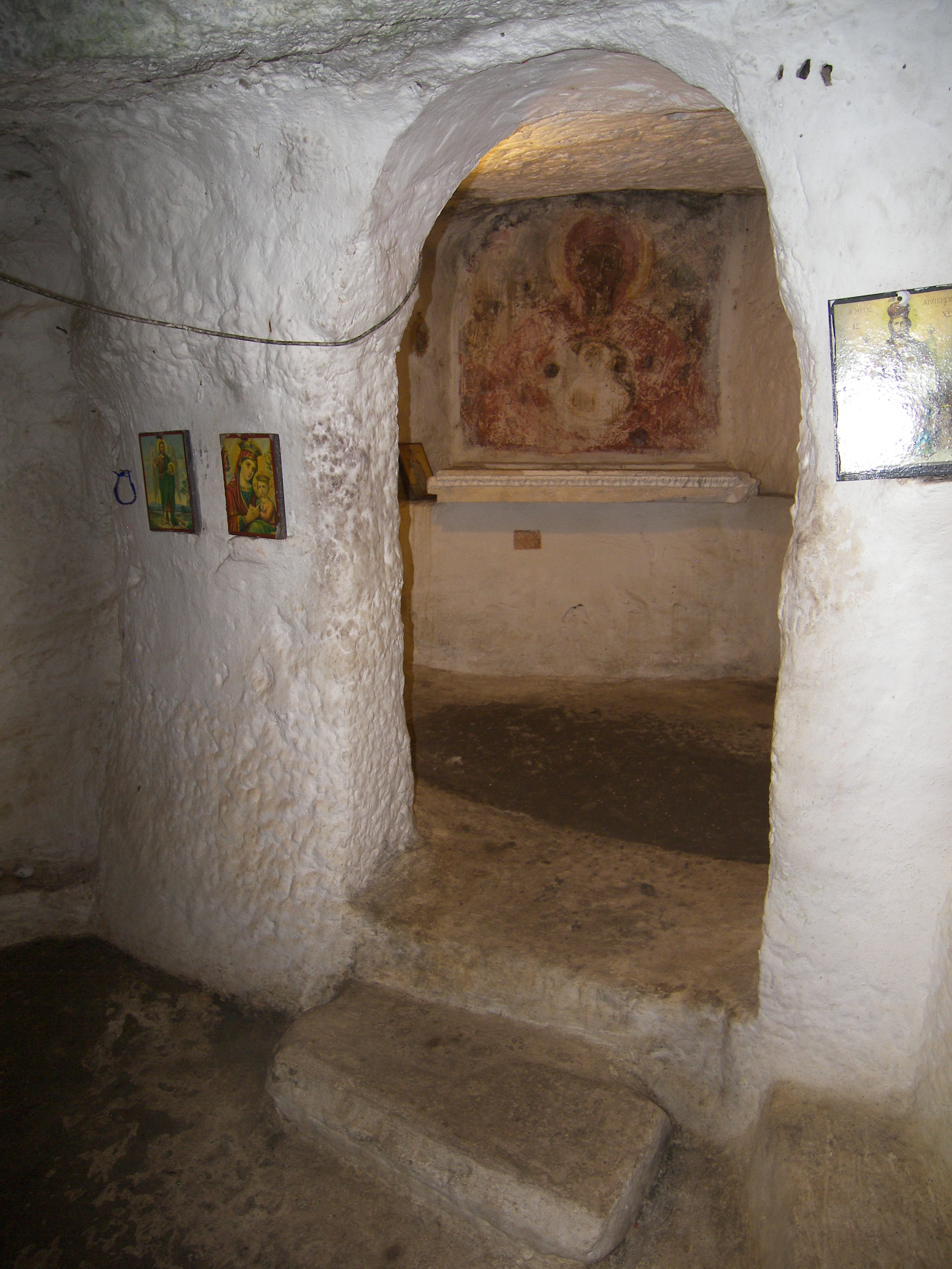 Please see filename